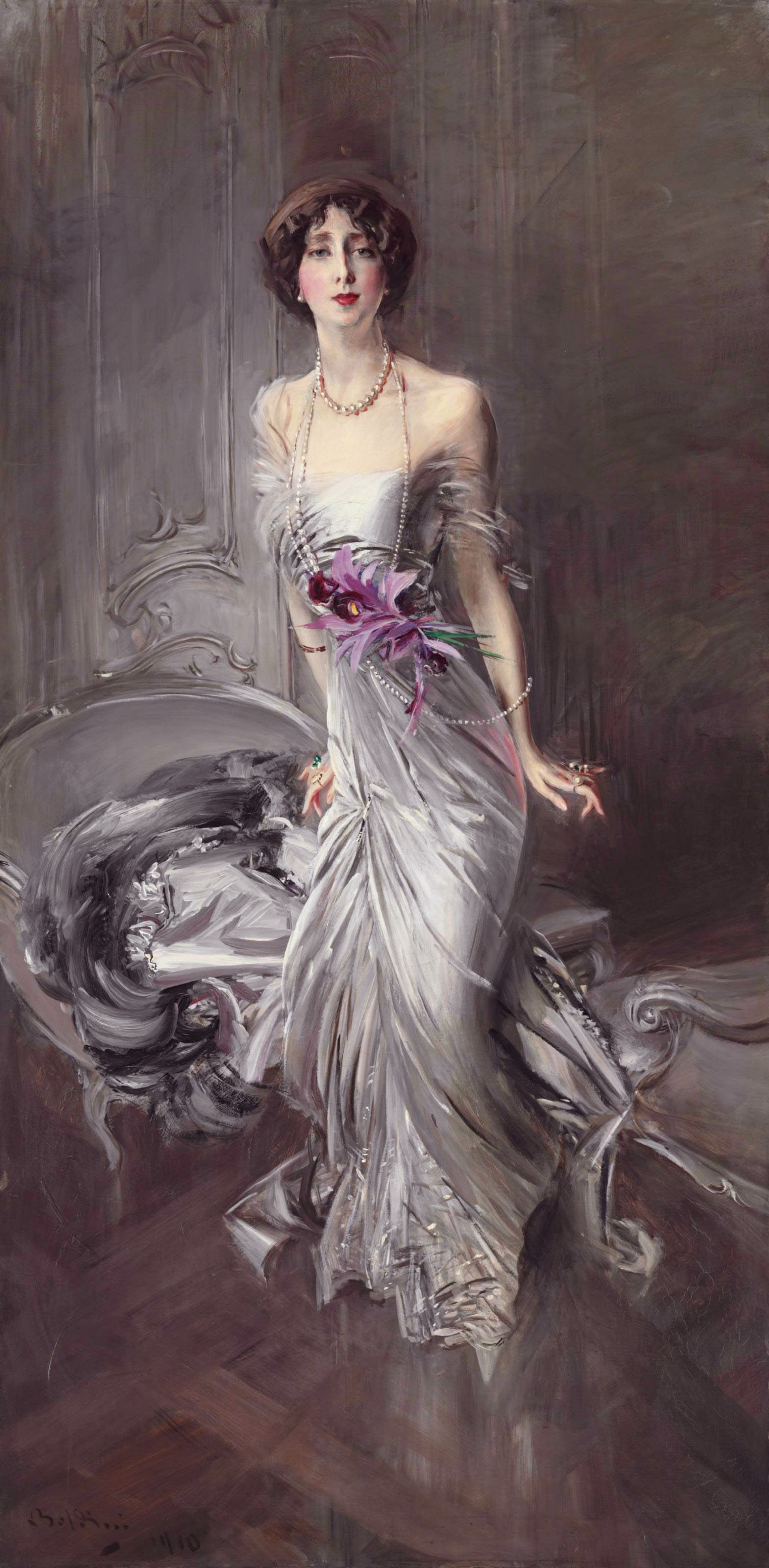 Portrait of Madame Eugène Doyen signed and dated 'Boldini 1910' (lower left); inscribed 'Mme Doyen' (on the reverse)